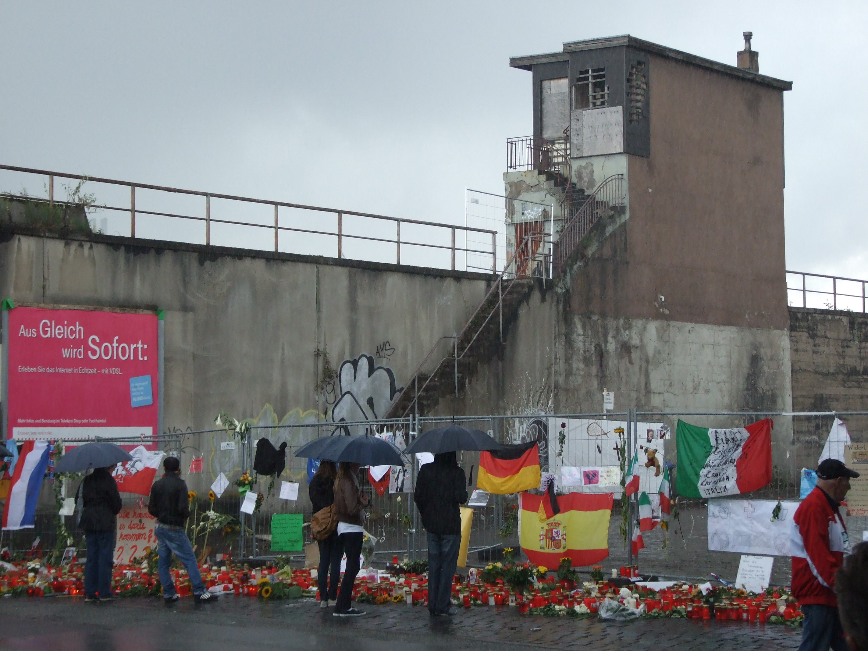 Love Parade 2010, stairway from ramp-downlevel up to the level of the event-area